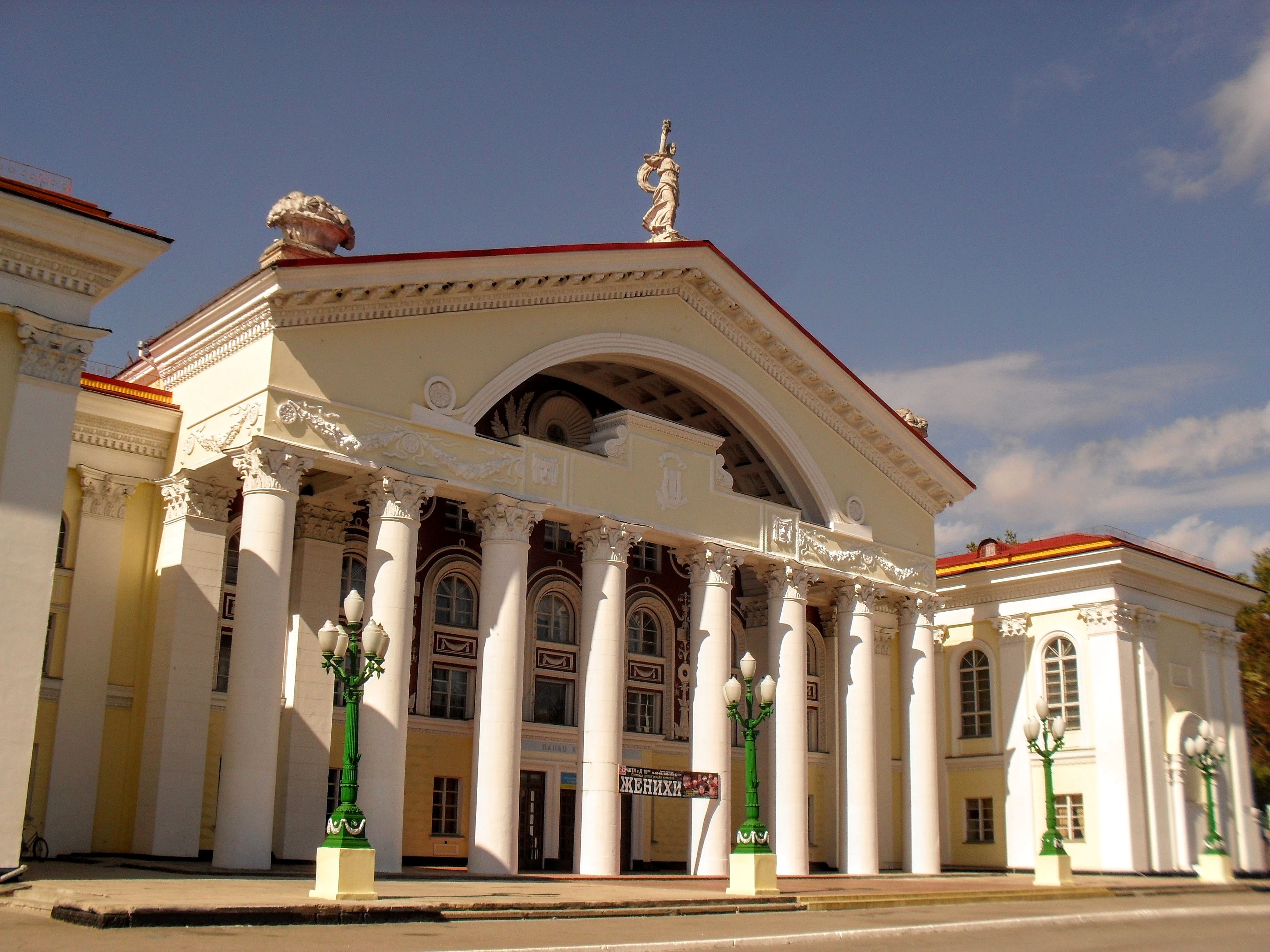 Palace of Culture in the street of the World, Fall 2016